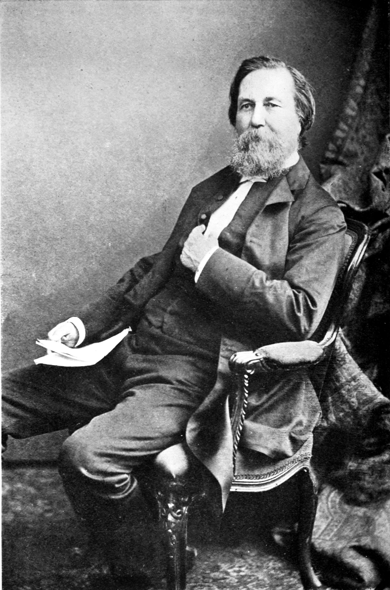 Rev. J. W. Ebsworth, M.A., F.S.A. (Ætat 68); /358. Notes by the Way with Memoirs of John Joseph Knight , F.S.A.: Dramatic Critic and Editor of 'Notes and Queries,' 1883–1907 and the Rev. Joseph Woodfall Ebsworth, F.S.A. Editor of the Ballad Society's Publications